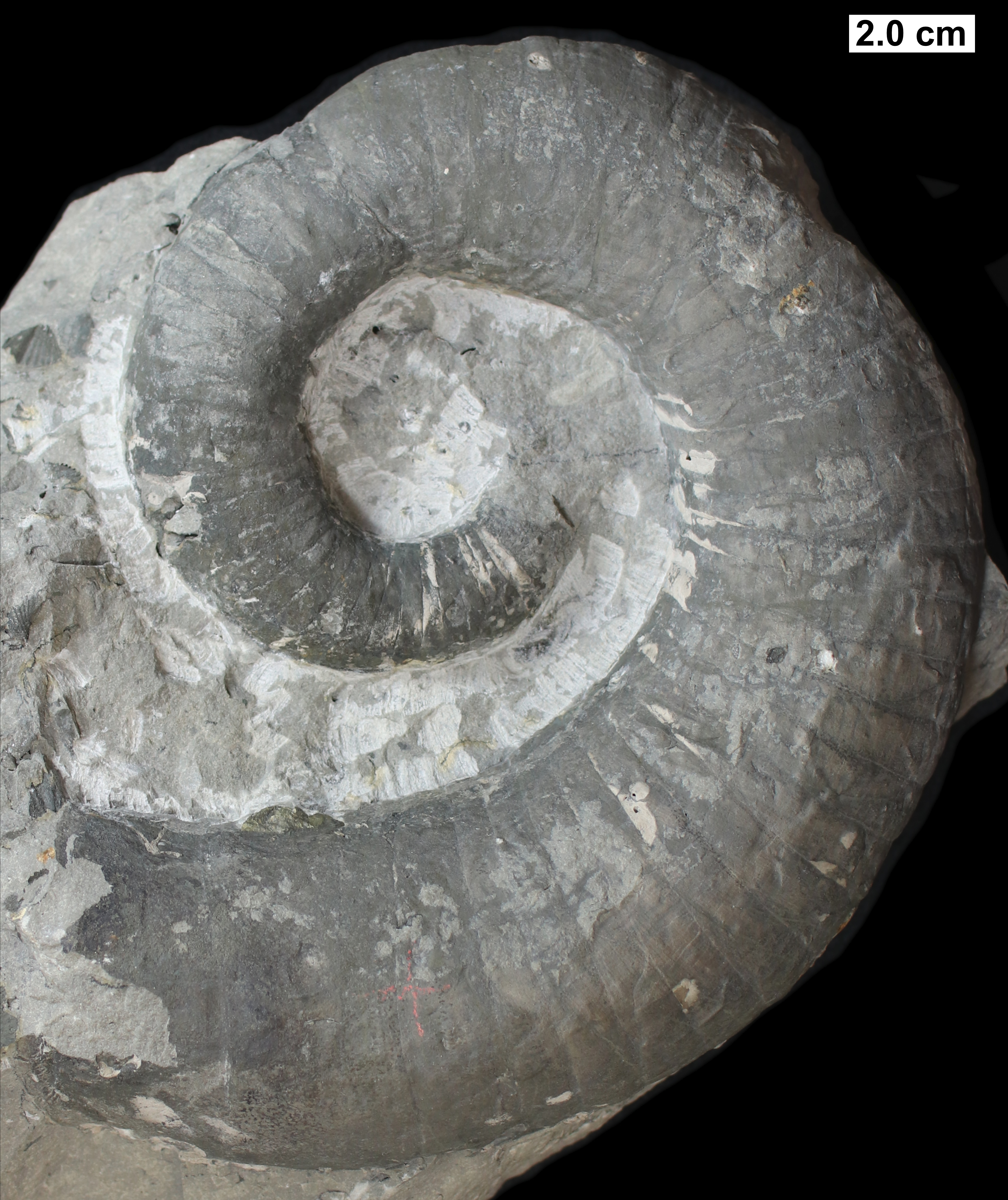 The oncocerid nautiloid Gyronaedyceras eryx (Hall, 1879); Middle Devonian; Milwaukee Formation; Berthelet Member; Milwaukee County, Wisconsin; MPM 437; collected by C.E. Monroe; photograph originally published in K.C. Gass, J. Kluessendorf, D.G. Mikulic, and C.E. Brett, 2019. Fossils of the Milwaukee Formation: A Diverse Middle Devonian Biota from Wisconsin, USA. Siri Scientific Press, Manchester, UK.